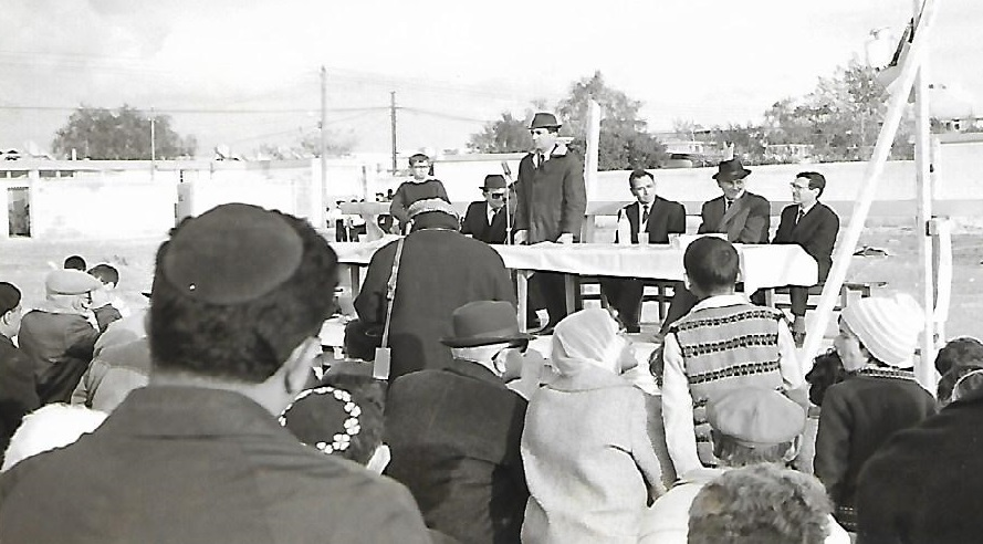 The cornerstone ceremony for the Al-Adati synagogue and Netivey-Am Beit Midrash, led by Ehud Avivi,Beer-Sheva, Shechuna Ledugma 1970. Additonal participants were the City Mayor Mr Elyiahu Nawi, The City's main Rabbis, Mr. Yakov Yinon CEO of the Ministry of Religion, Mr. Tzvi Oren Manager of the Negev area at the Ministry of Construction, Mr. Moshe Gabay Chair of the Religion Committee, Members of the City Council and the Religion Committee and the public residents of the neighbourhood and community.